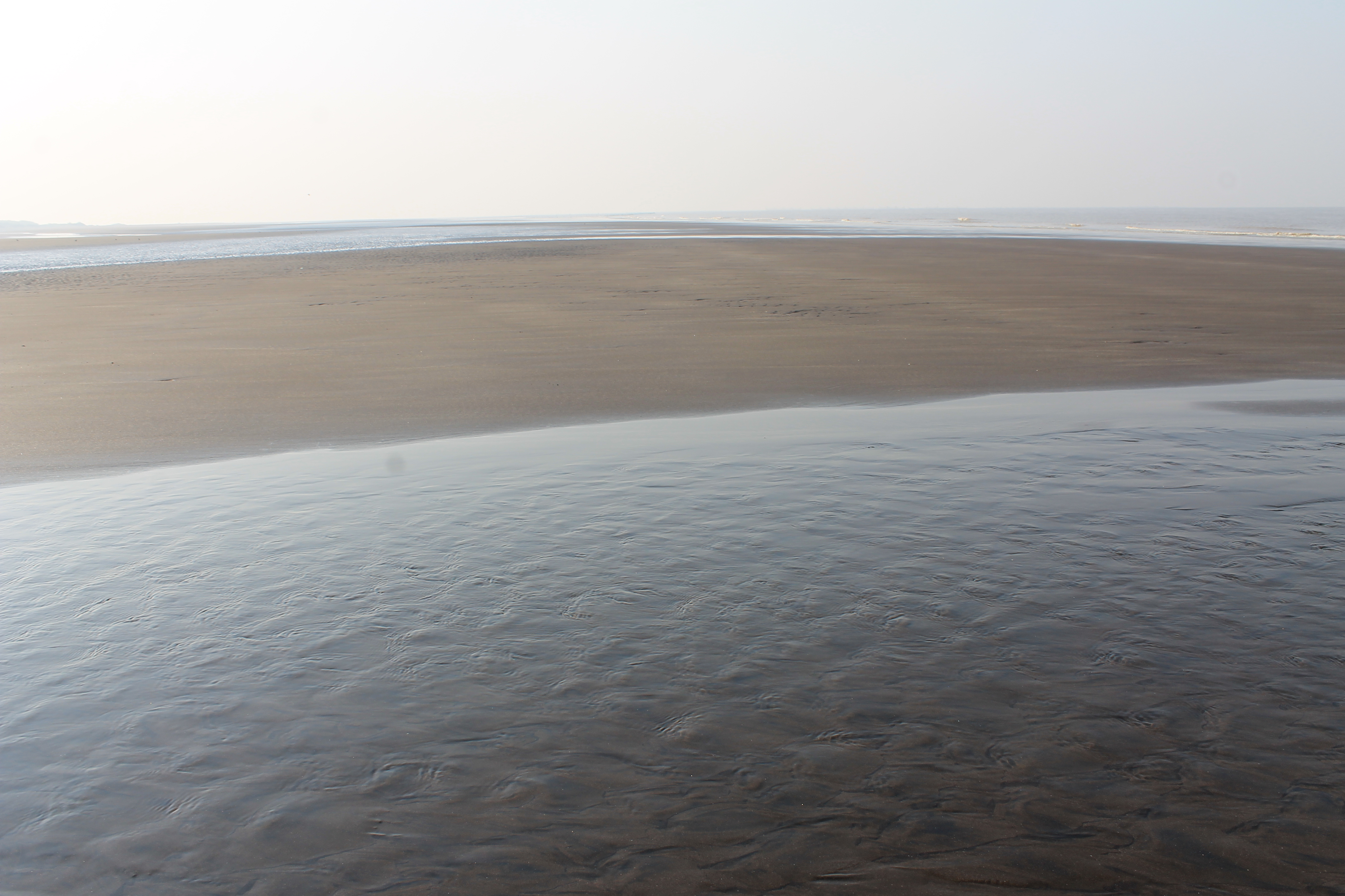 An isolated sandy beach near Hazira,Surat,Gujarat.